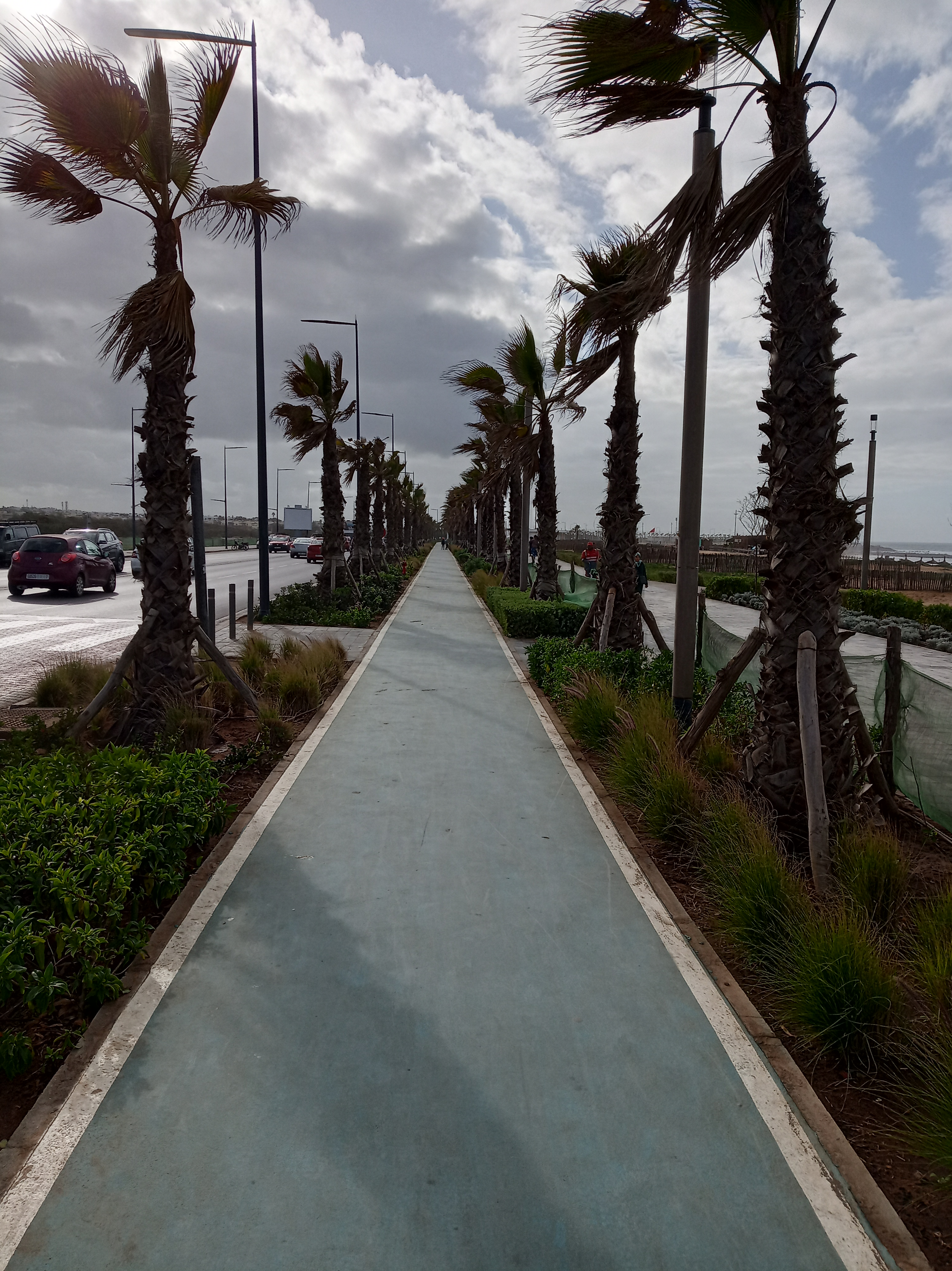 This is an image with the theme "Africa on the Move or Transport" from: Morocco